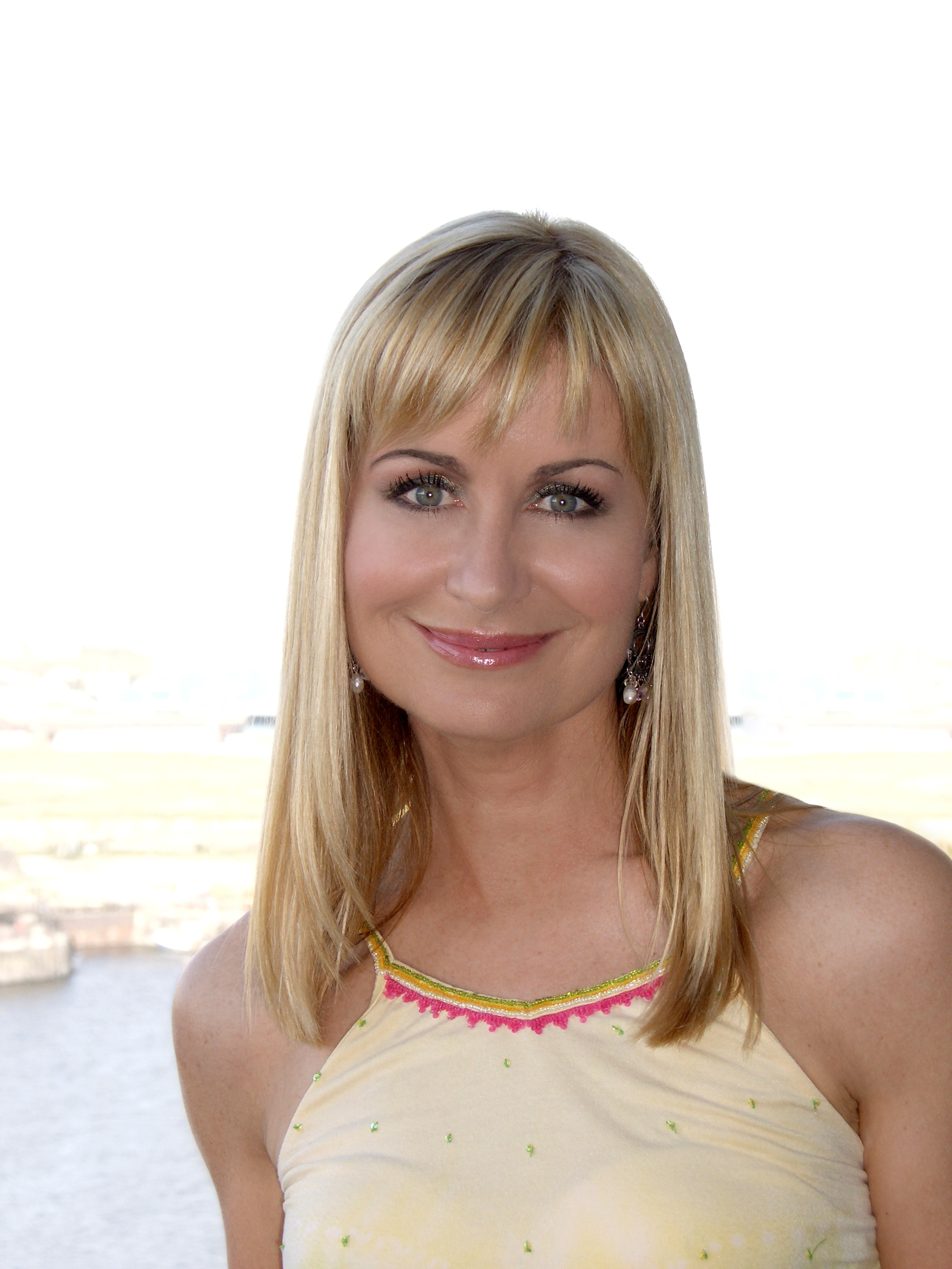 Siân Lloyd (weather presenter)